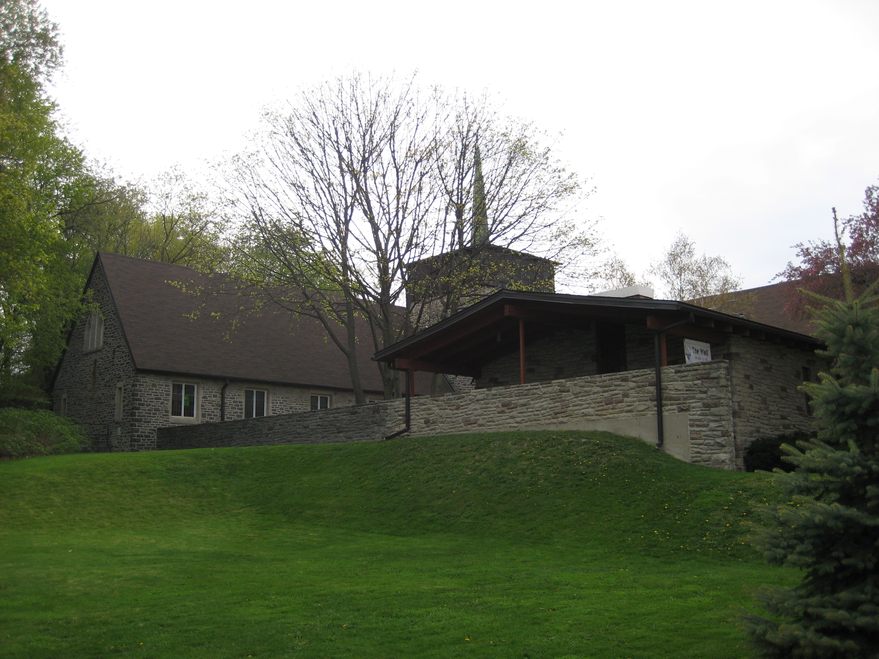 St. Giles Kingsway at 15 Lambeth Road in Etobicoke.